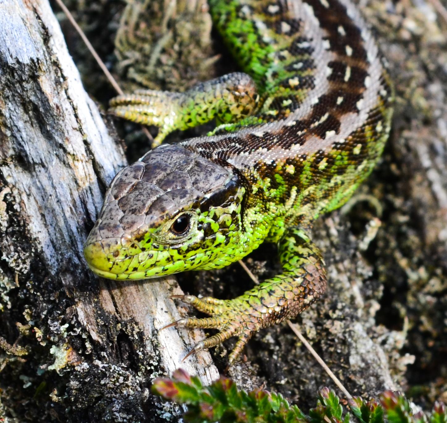 Male sand lizard close-up. NP Utrechtse Heuvelrug. NL. This is a photo or sound file made in Utrechtse Heuvelrug National Park in the Netherlands, with the main subject of the file in the category: animals